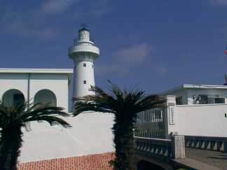 A photo of the Eluanbi lighthouse (Eluan Pi, O-Luan Pi), located in the Kenting National Park. Picture taken by User:Valhallia (NGA:112-13768).